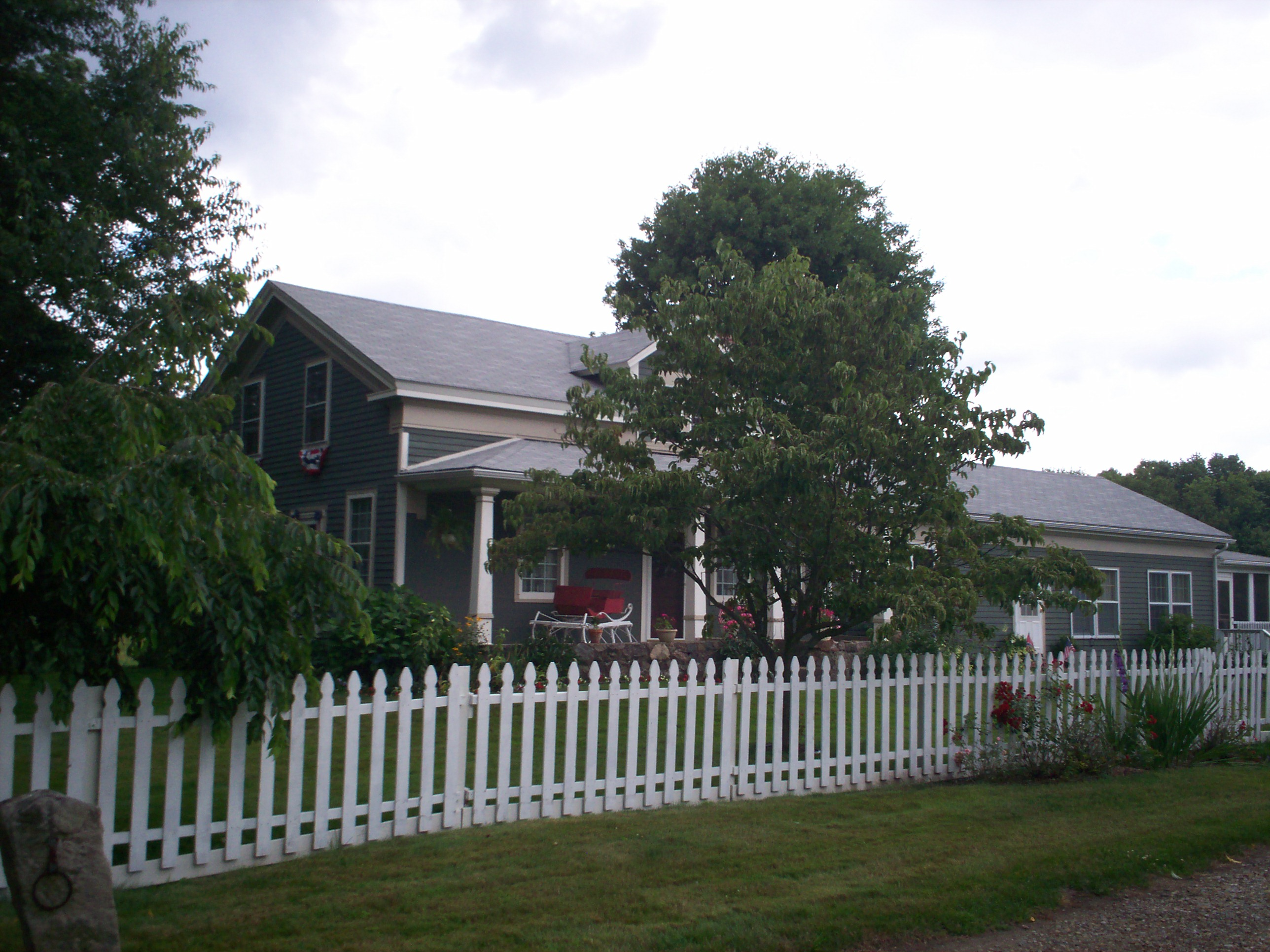 Side view picture of the historic Oliver and Rosetta Snow home in Mantua, Ohio. It is the home where early Mormon (Latter-day Saint) leaders Lorenzo Snow and his sister Eliza R. Snow spent most of their childhoods.